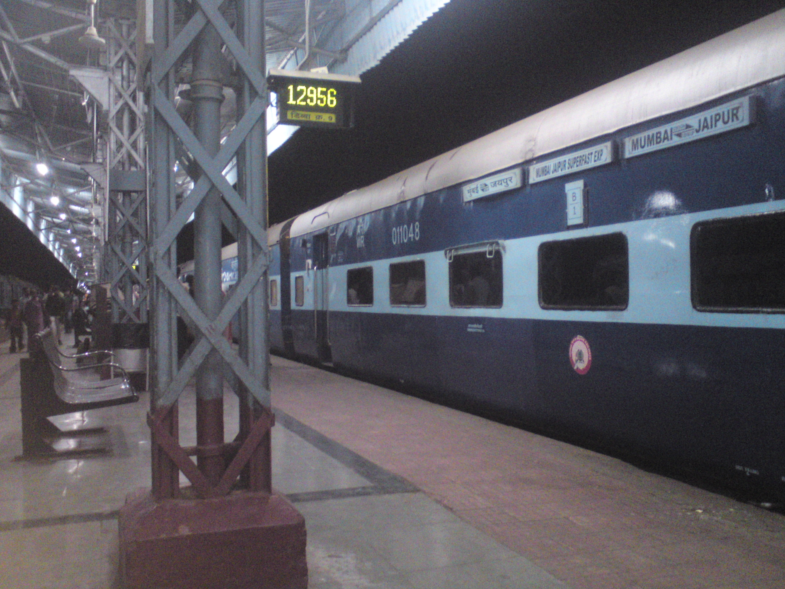 Jaipur Superfast at Ratlam Junction